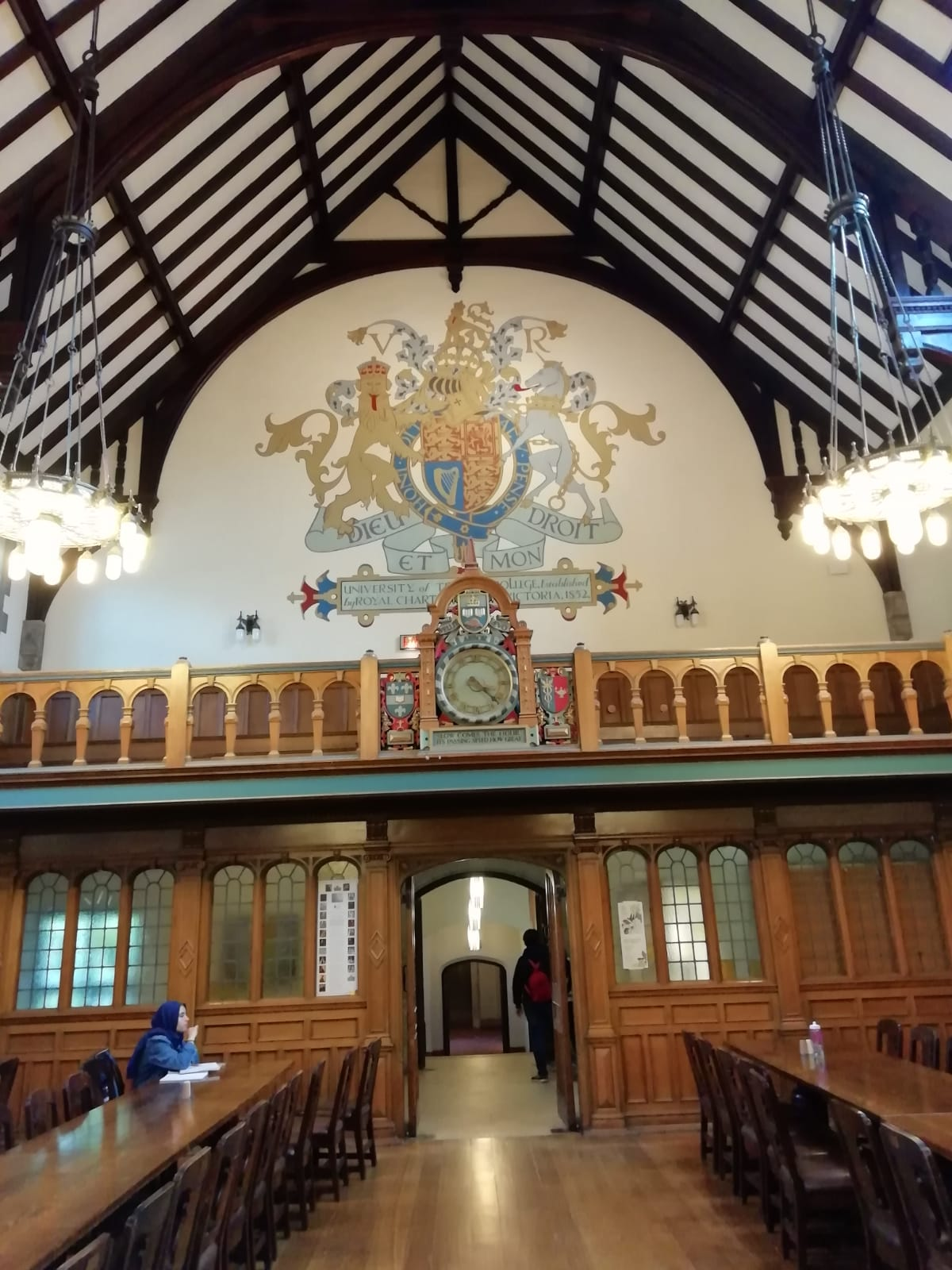 A rear view of Strachan Hall in Trinity College, Toronto